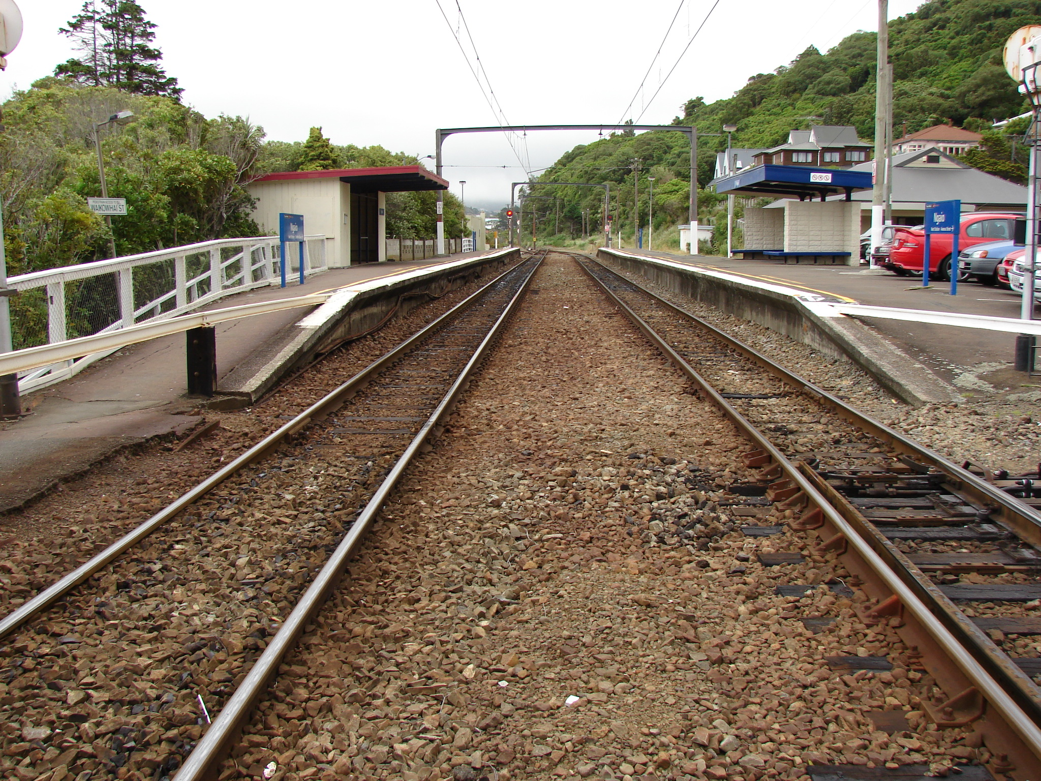 Ngaio railway station, looking south in the direction of Crofton Downs station. Photographed by Matthew25187 on 2007-12-17.